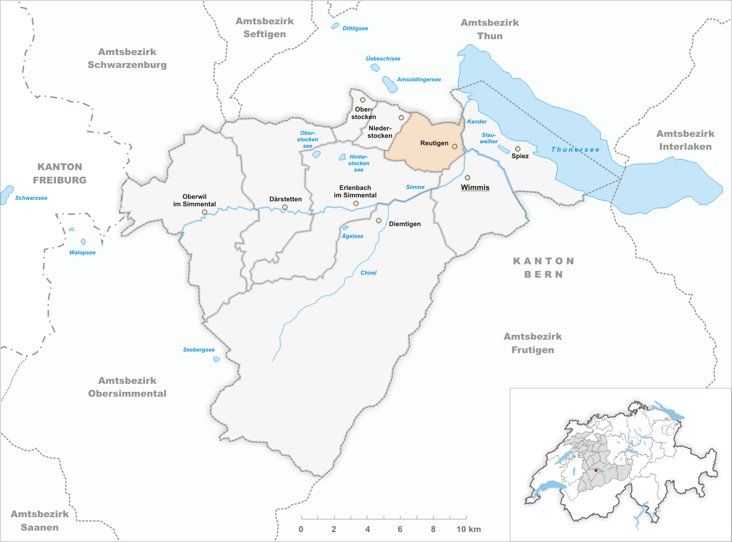 Municipality Reutigen